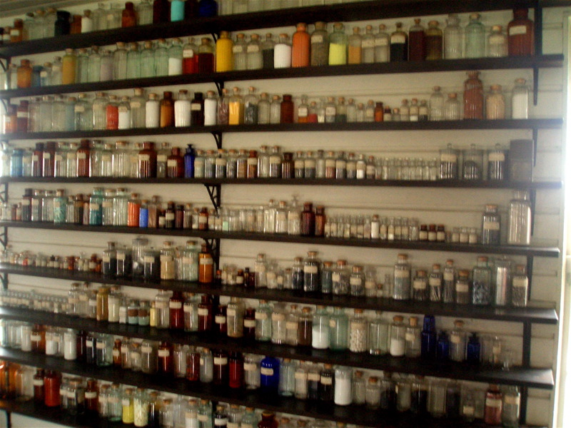 Edison labs, Greenfield Village, Dearborn, Michigan.